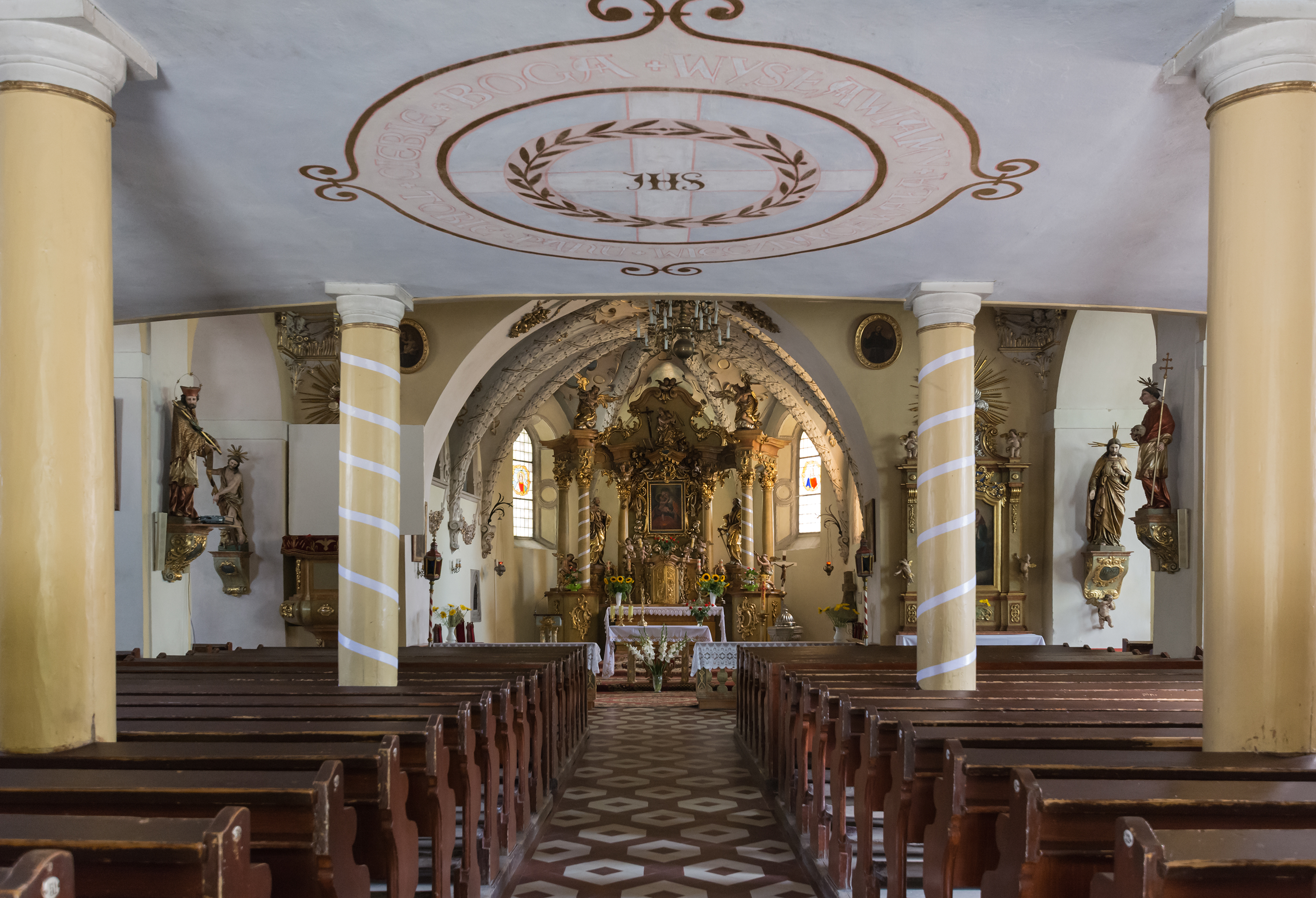 Mary Magdalene church in Gorzanów